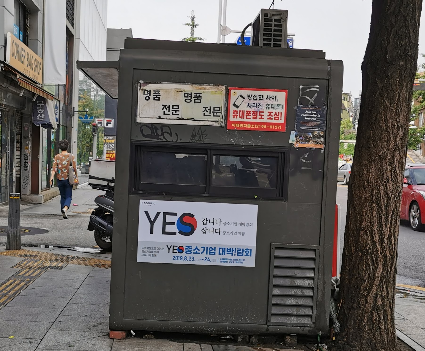 Advocates to buy Korean products in Itaewon, Seoul.